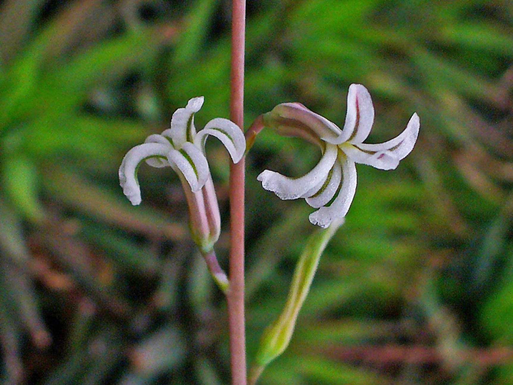 Haworthia attenuata, Asphodelaceae, flowers; Botanical Garden Karlsruhe, Germany.